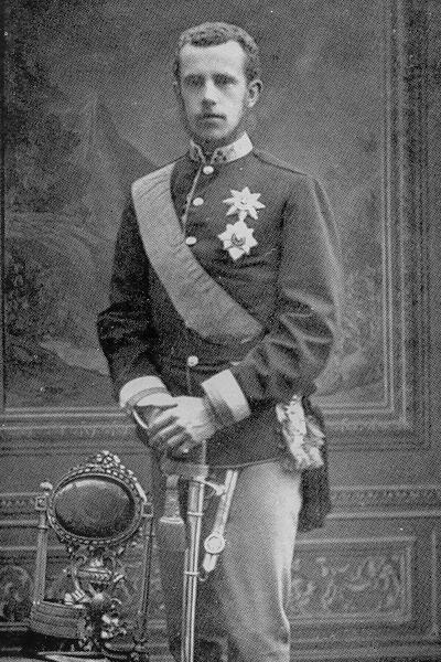 Crown Prince Rudolf of Austria (1858-1889). Photo taken 1880, at the time of his engagement to Princess Stéphanie of Belgium (they married May 10, 1881).